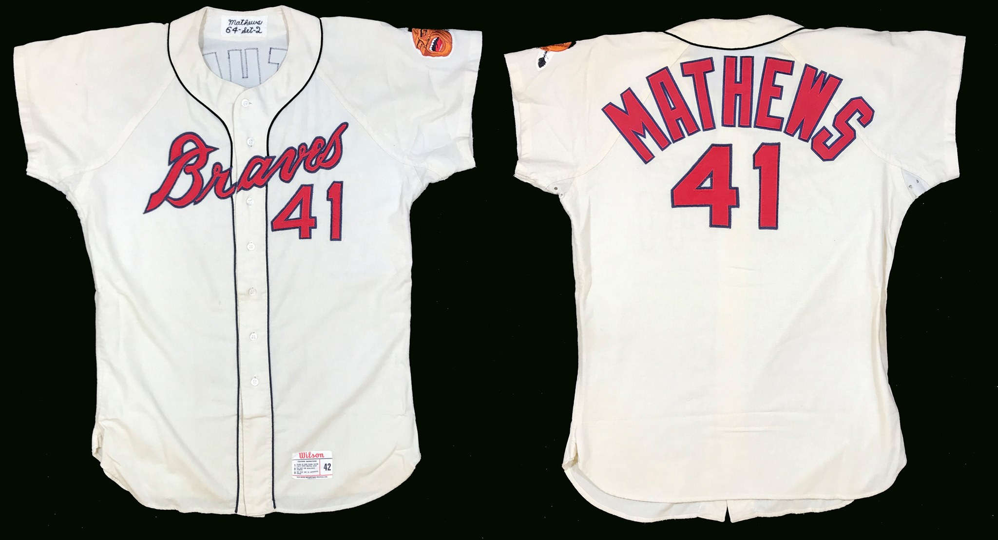 1964 Milwaukee Braves #41 Eddie Mathews Game Worn Home Jersey restored and photographed by William F. Henderson who may be contacted through his website at thedream.shop.